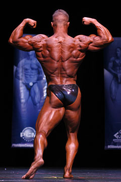 Image of professional bodybuilder posing